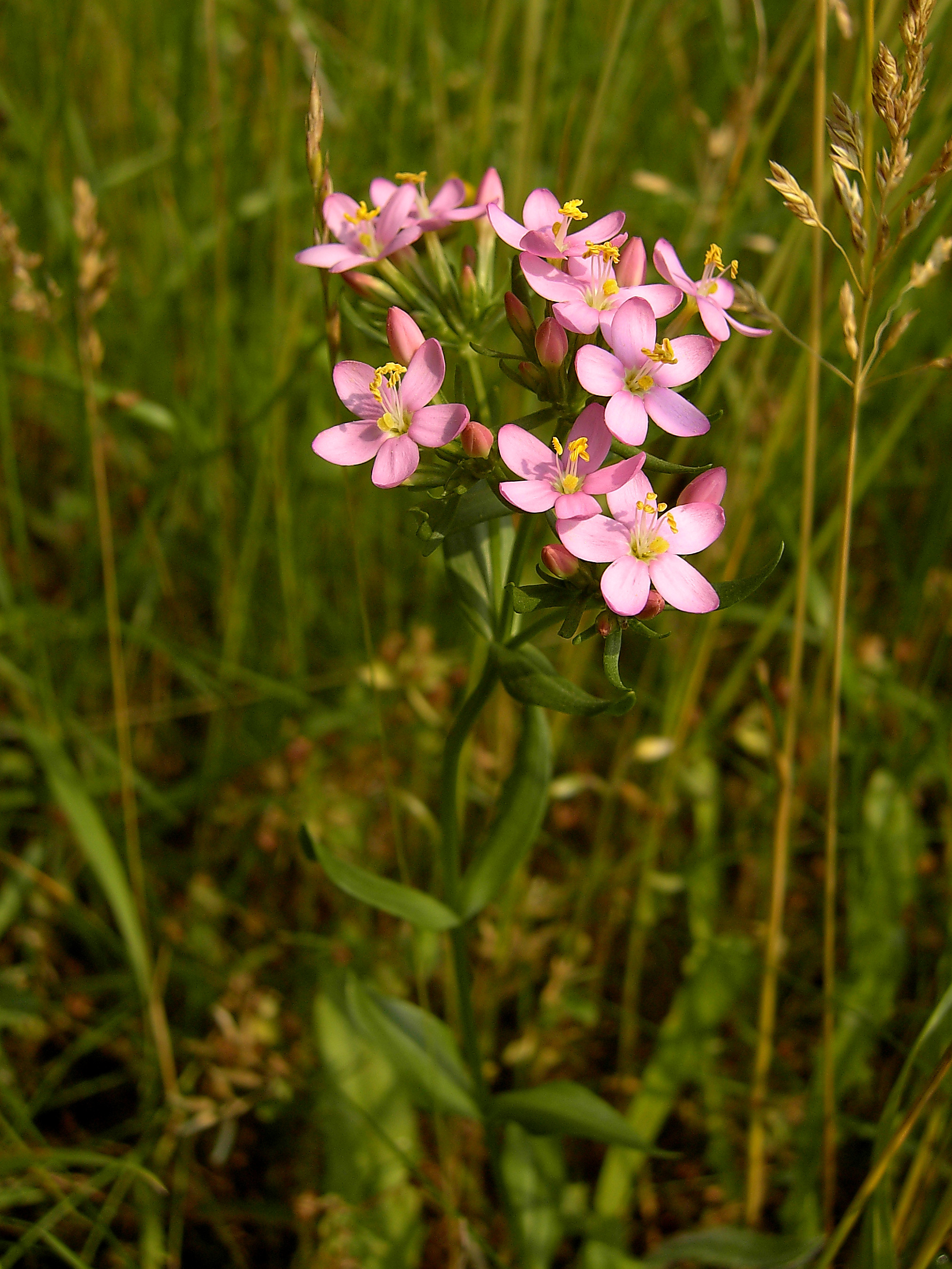 plant at Ankerstraat, Oostende, Belgium